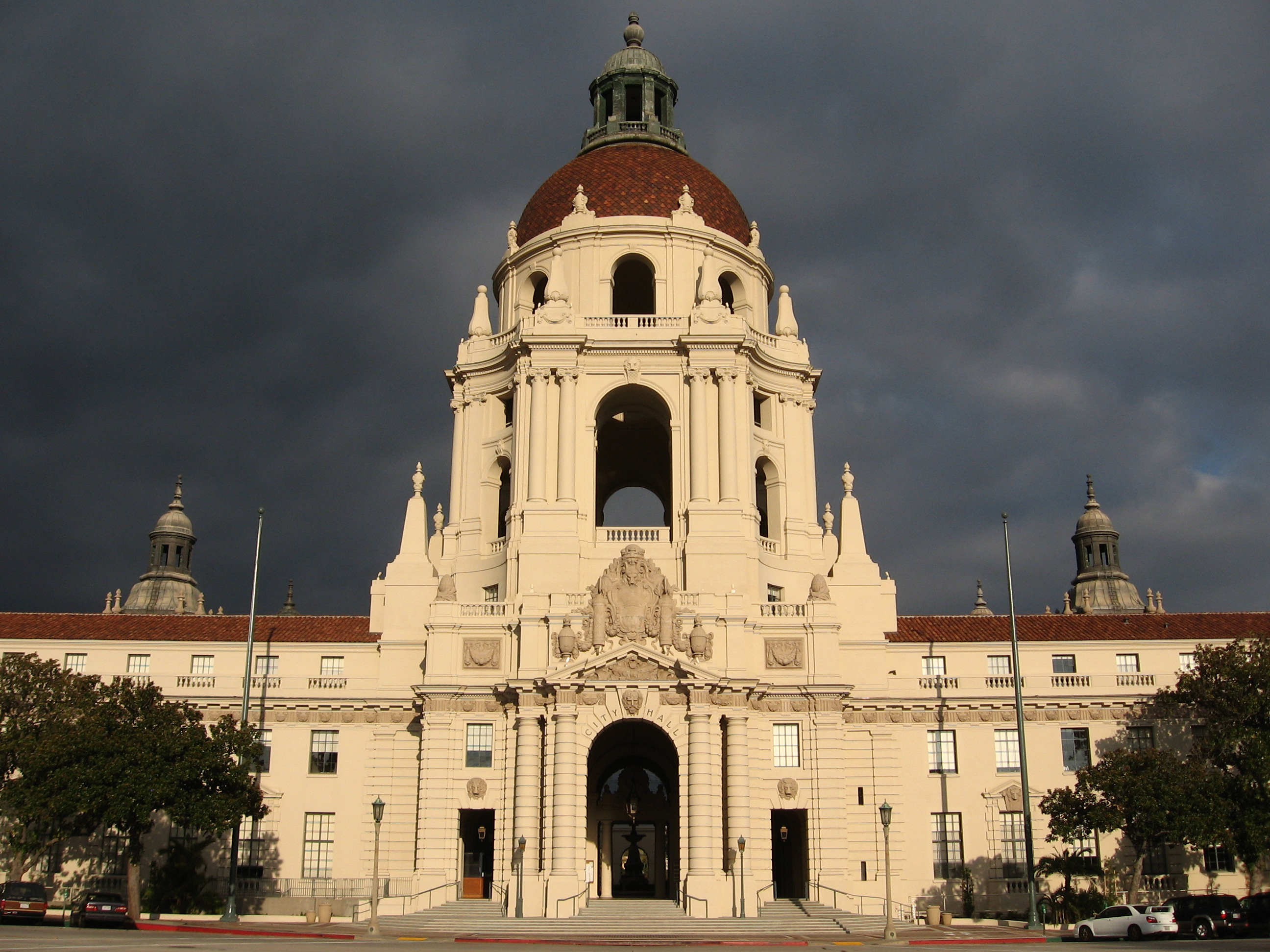 Pasadena City Hall — Pasadena Civic Center, Pasadena, California.